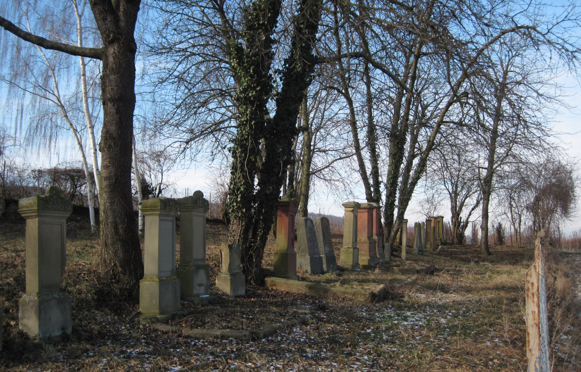 Tombstones at the jewish cemetery Großwinternheim (communal district Ober-Ingelheim)